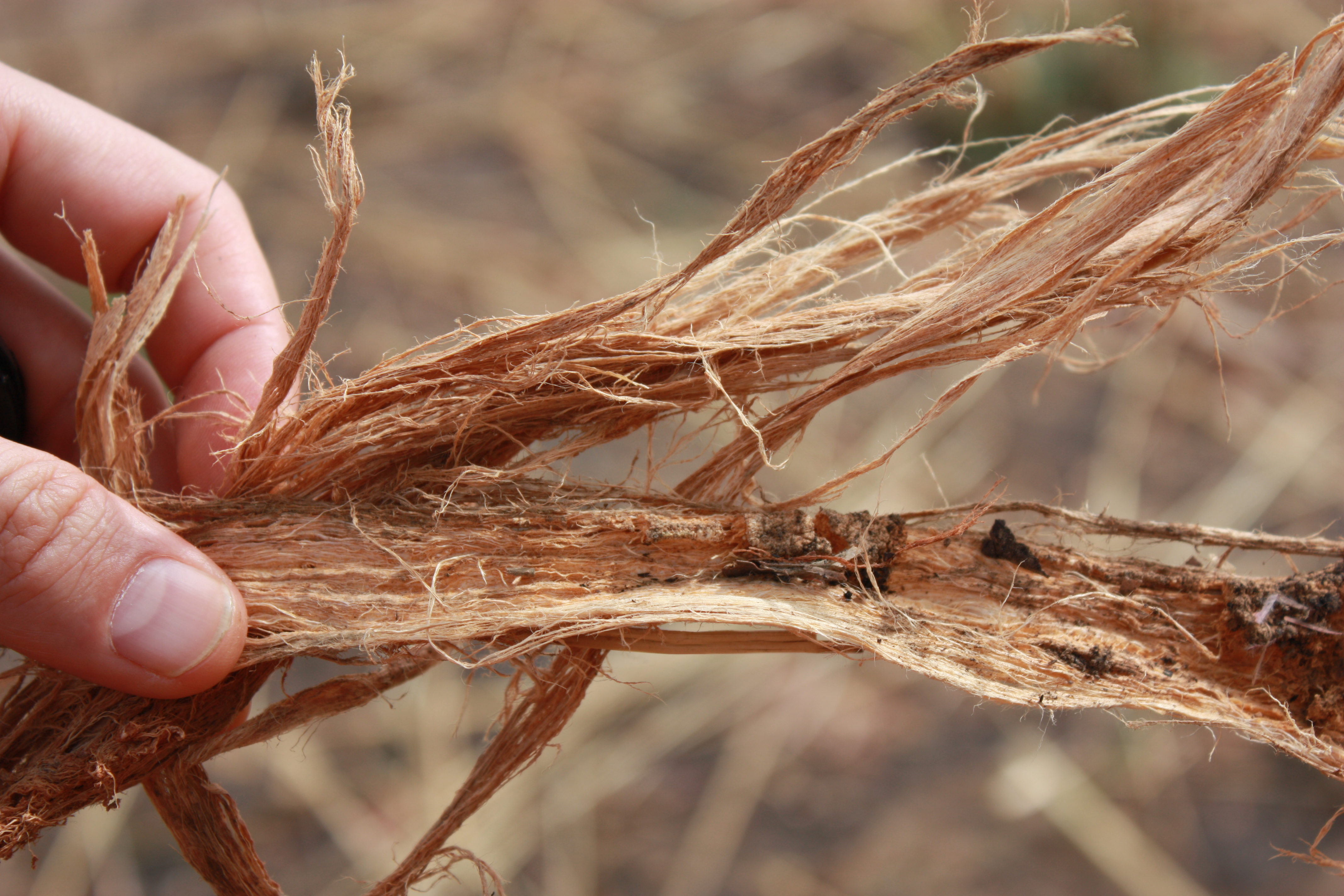 fibers of the Baobab (Adansonia digitata) from Reserve Pama-Nord, Burkina Faso